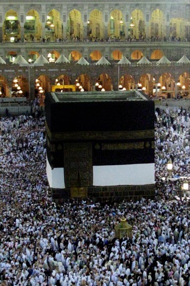 Masjid al-Haram, Dhu al-Hijjah 1429 AH